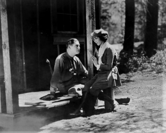 Edward Hearn and Anita Stewart in A Question of Honor (1922) - publicity still (cropped)